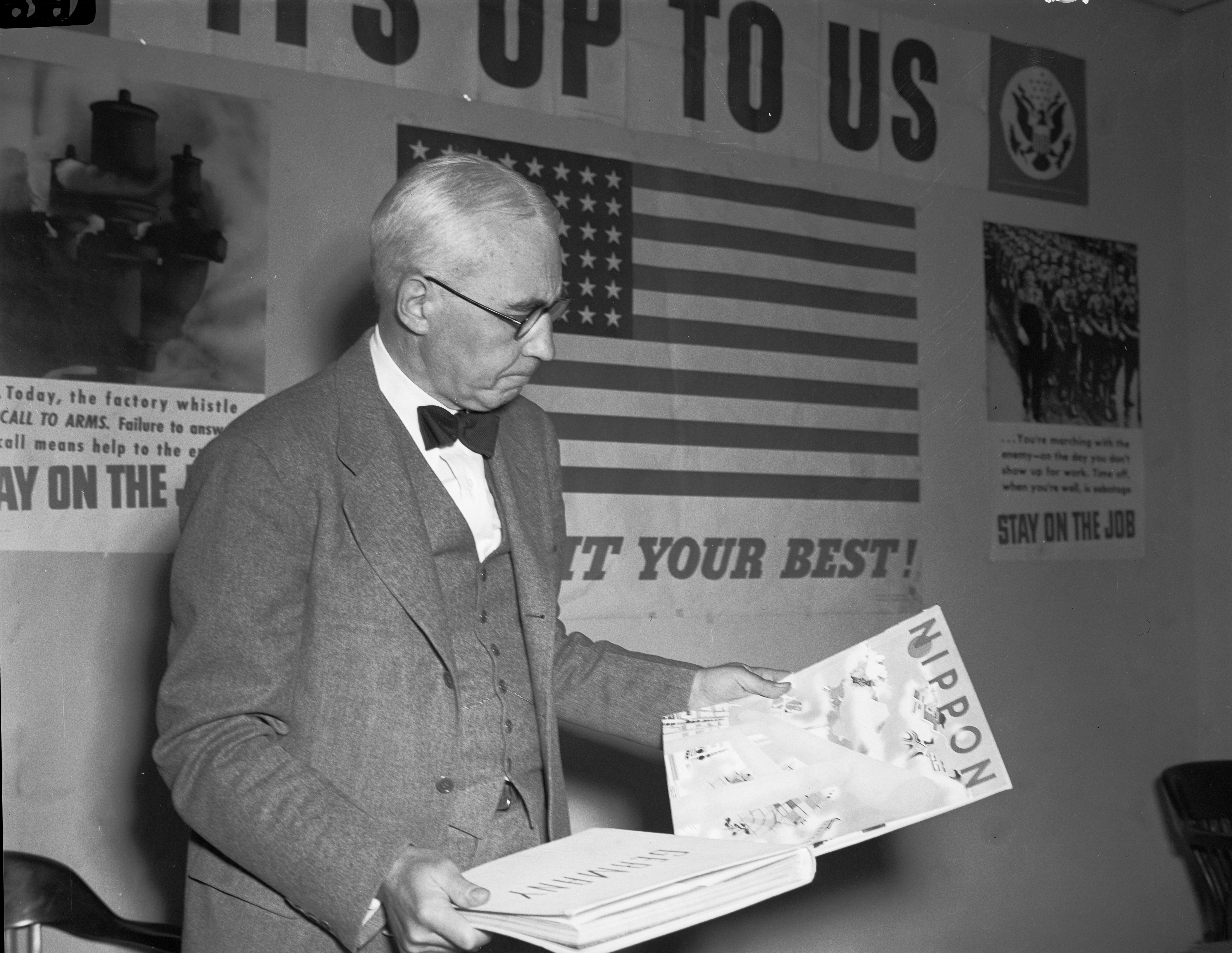 Axis propaganda. Elmer Davis, director of the Office of War Information, examines Nazi and Japanese propaganda organs which he displayed at a press conference on March 6, 1943, to show material the Axis is distributing in neutral countries and the material with which the OWI is fighting it.